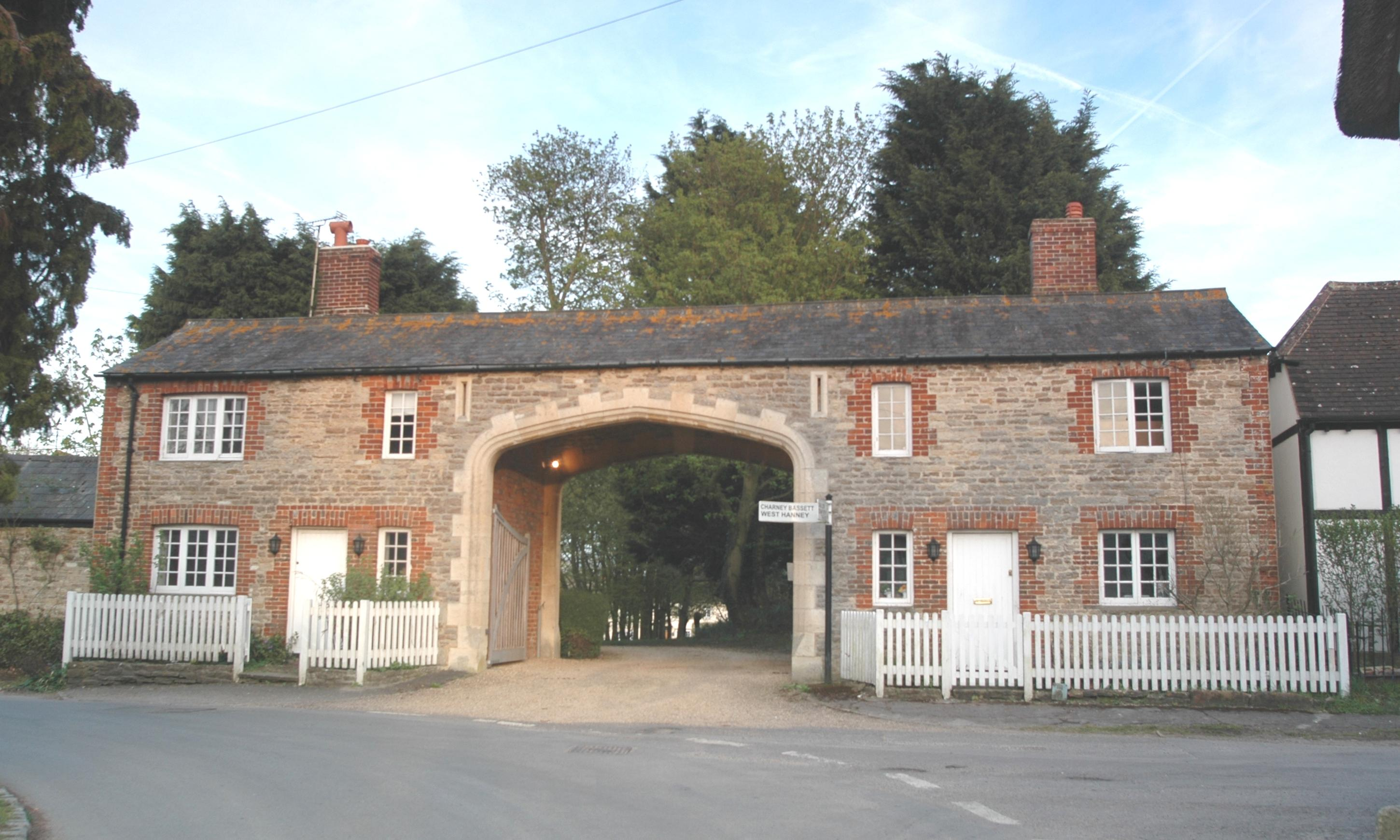 The Archway, Denchworth, Vale of White Horse